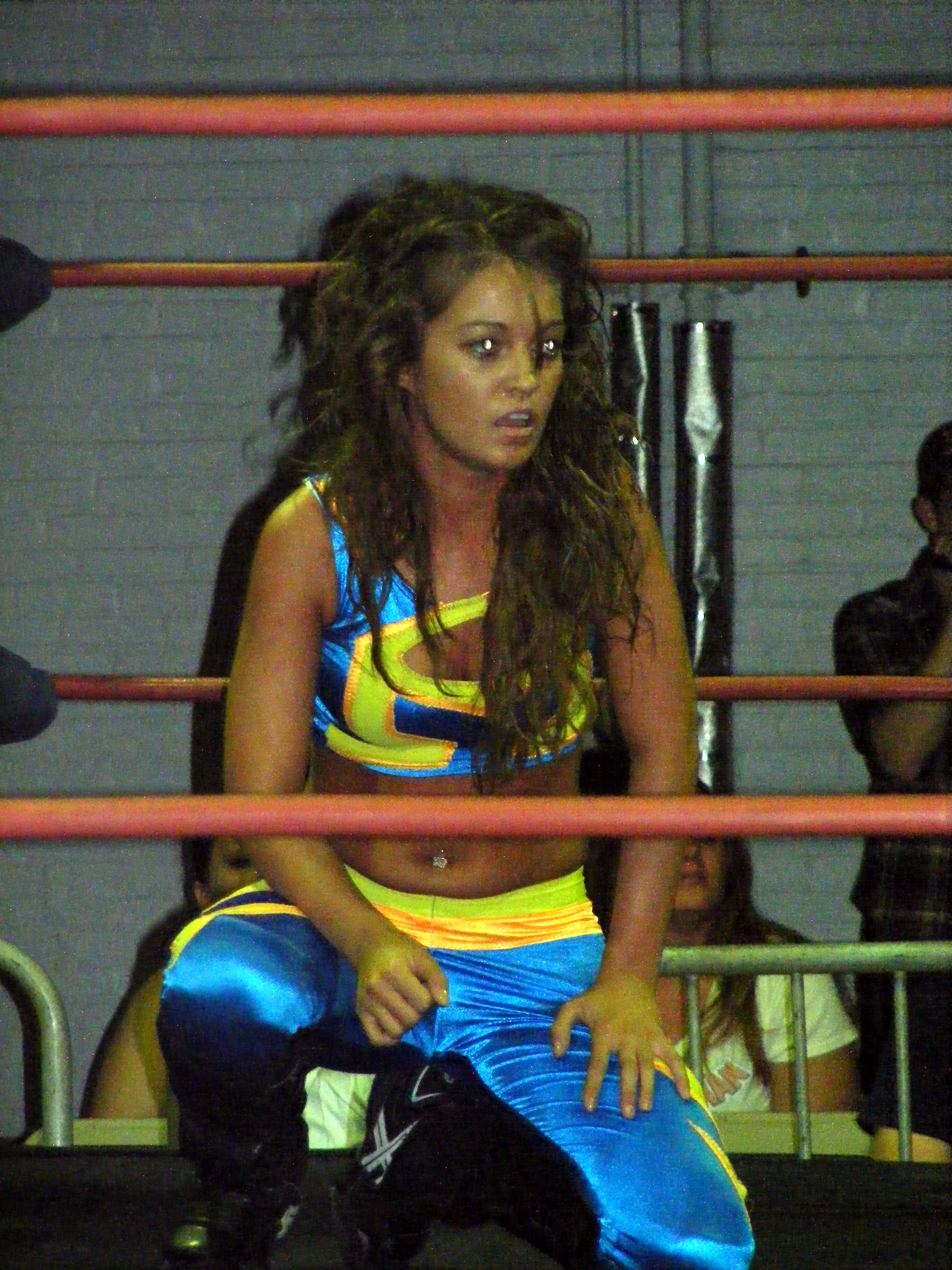 Professional wrestler Alexxus (a.k.a Lexxus/Alexxis) at an NECW show in May 2009